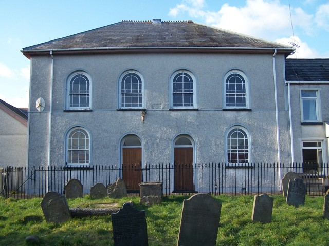 Salem Chapel, Robertstown near Aberdare Salem Chapel, Bridge Street, Robertstown near Aberdare.